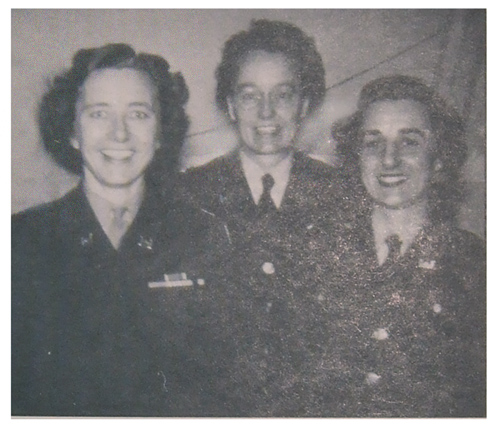 Myrtle Bachelder.